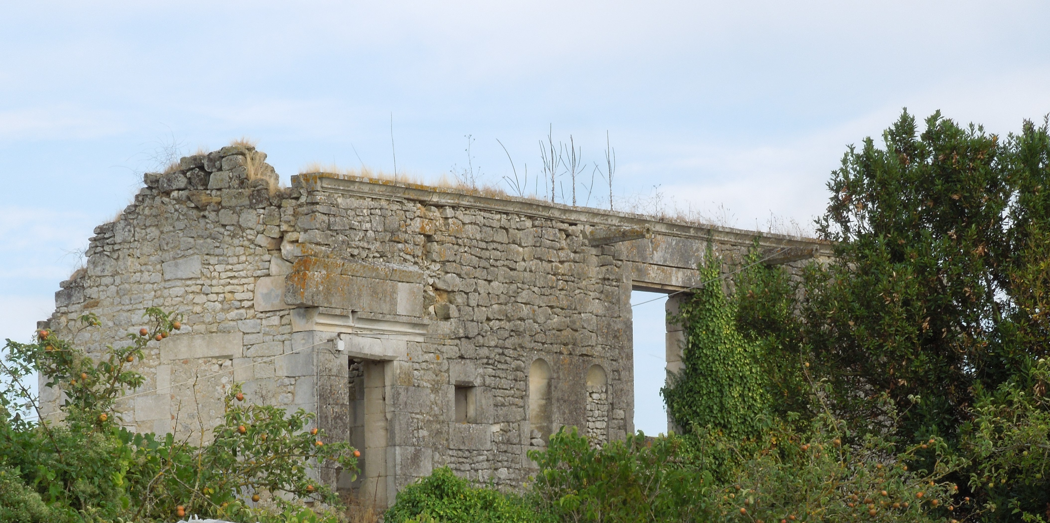 Fléac-sur-Seugne, ruins of the corps de logis of the former château in the village